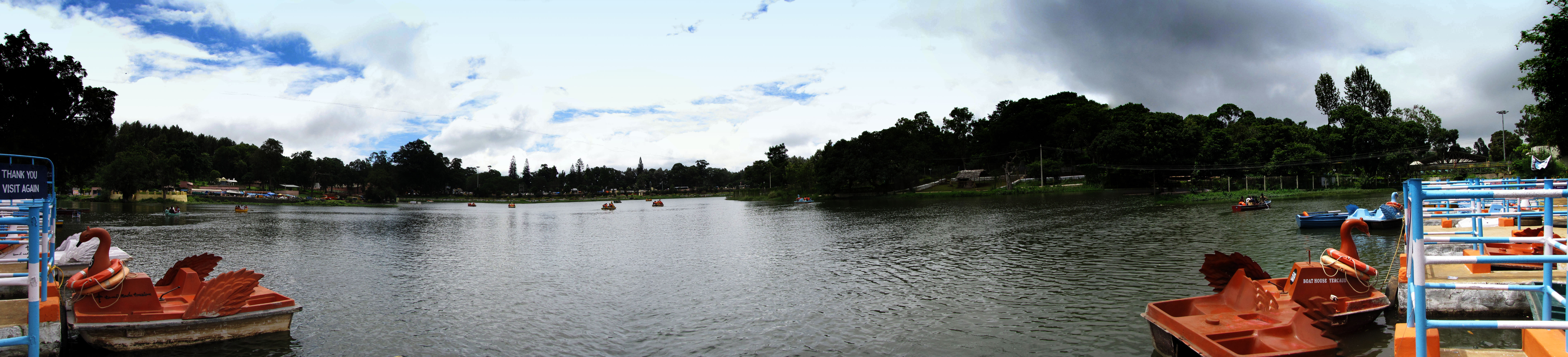 Yercaud Lake Panorama - Boat House, Tamilnadu,India